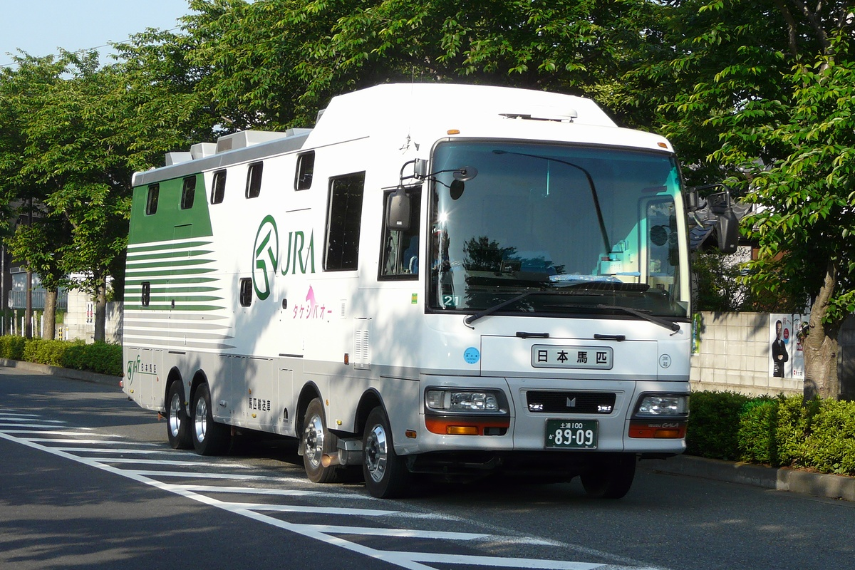 Uma-bus